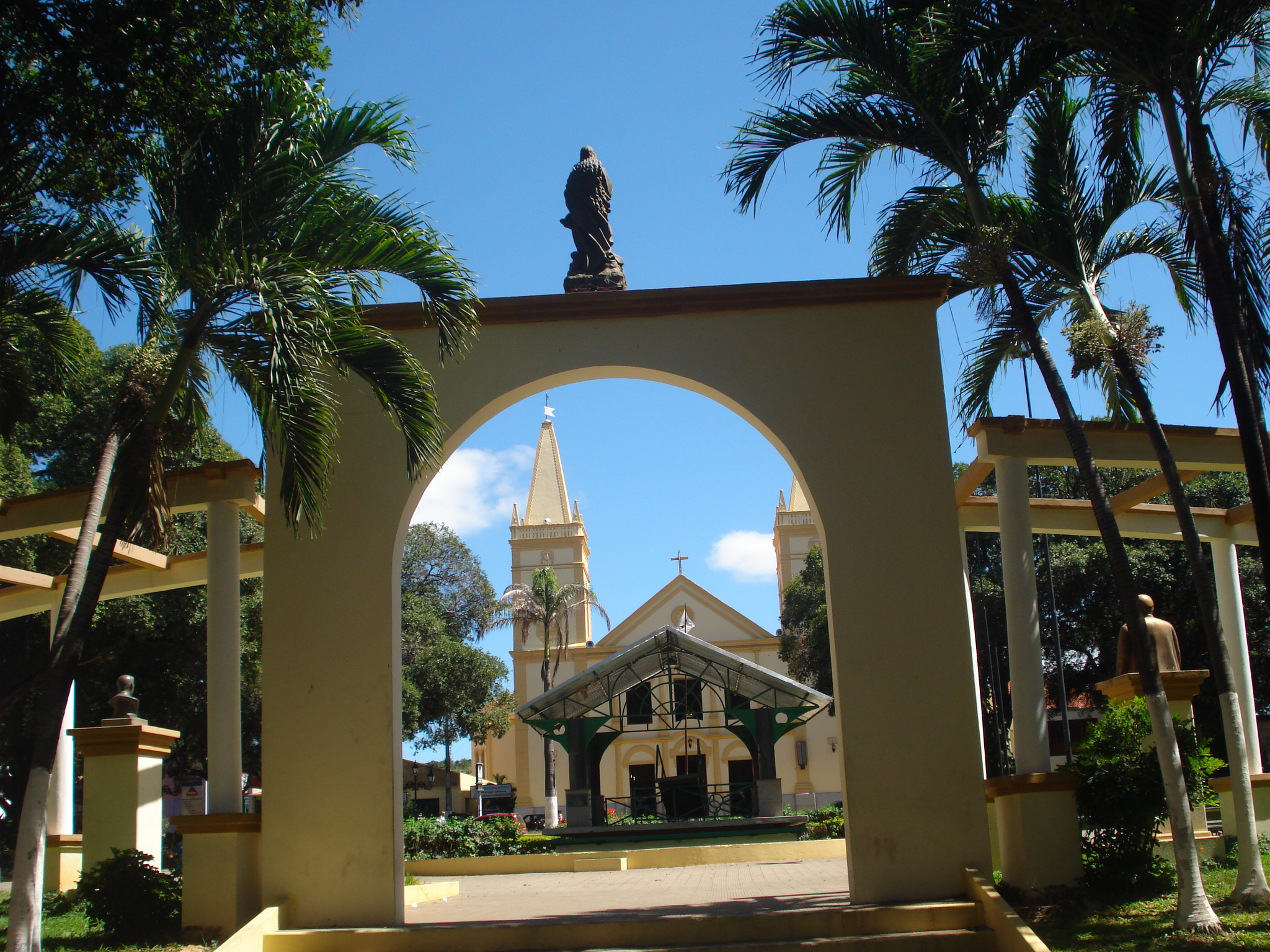 Partial sight of the See Church in Crato (Ceará), situated at the center of the city, with the sight of the Cathedral - usually called "Igreja da Sé" in the background